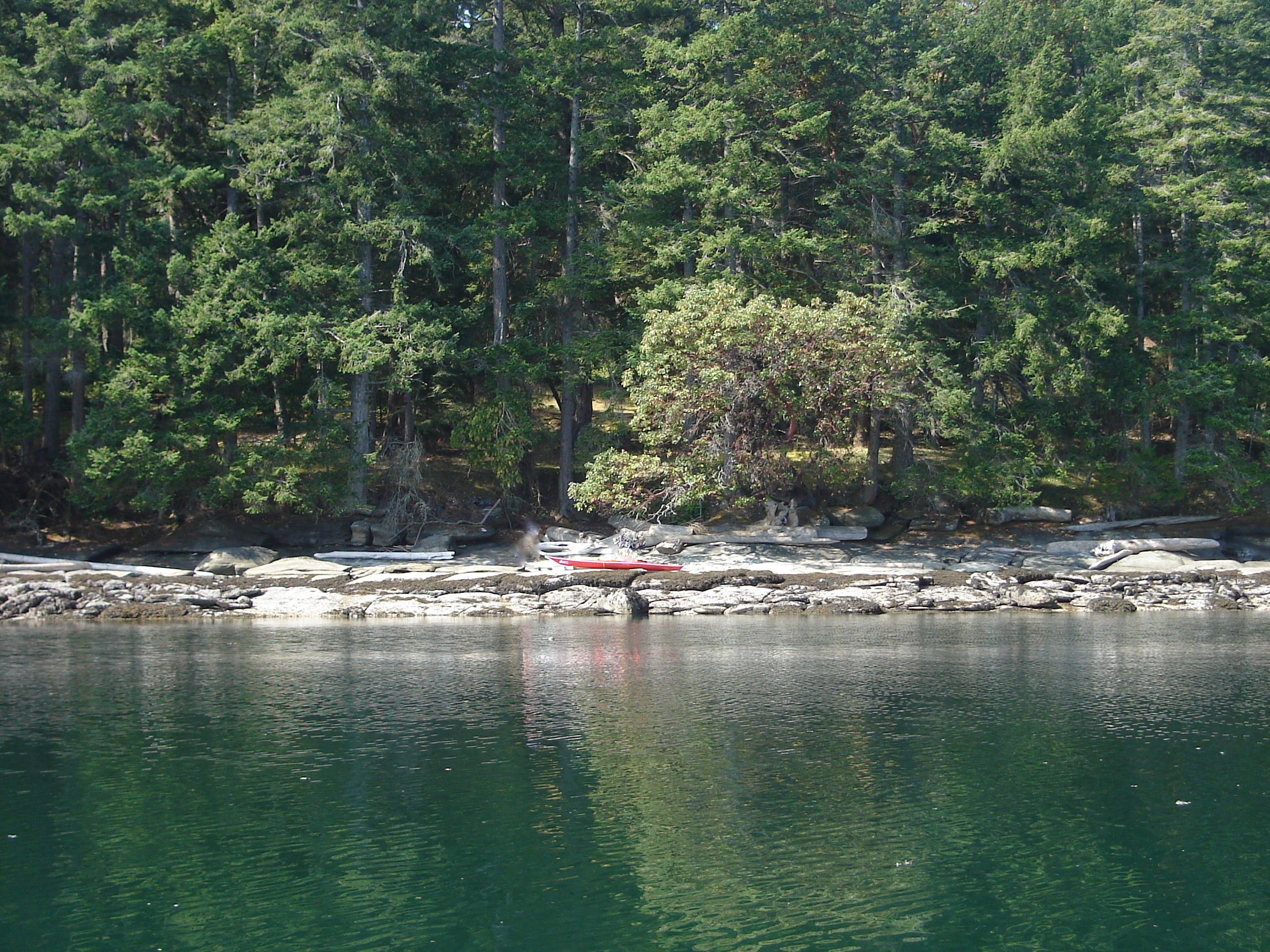 Photograph of the shoreline at Wakes Cove Provincial Park on Valdes Island in British Columbia Canada